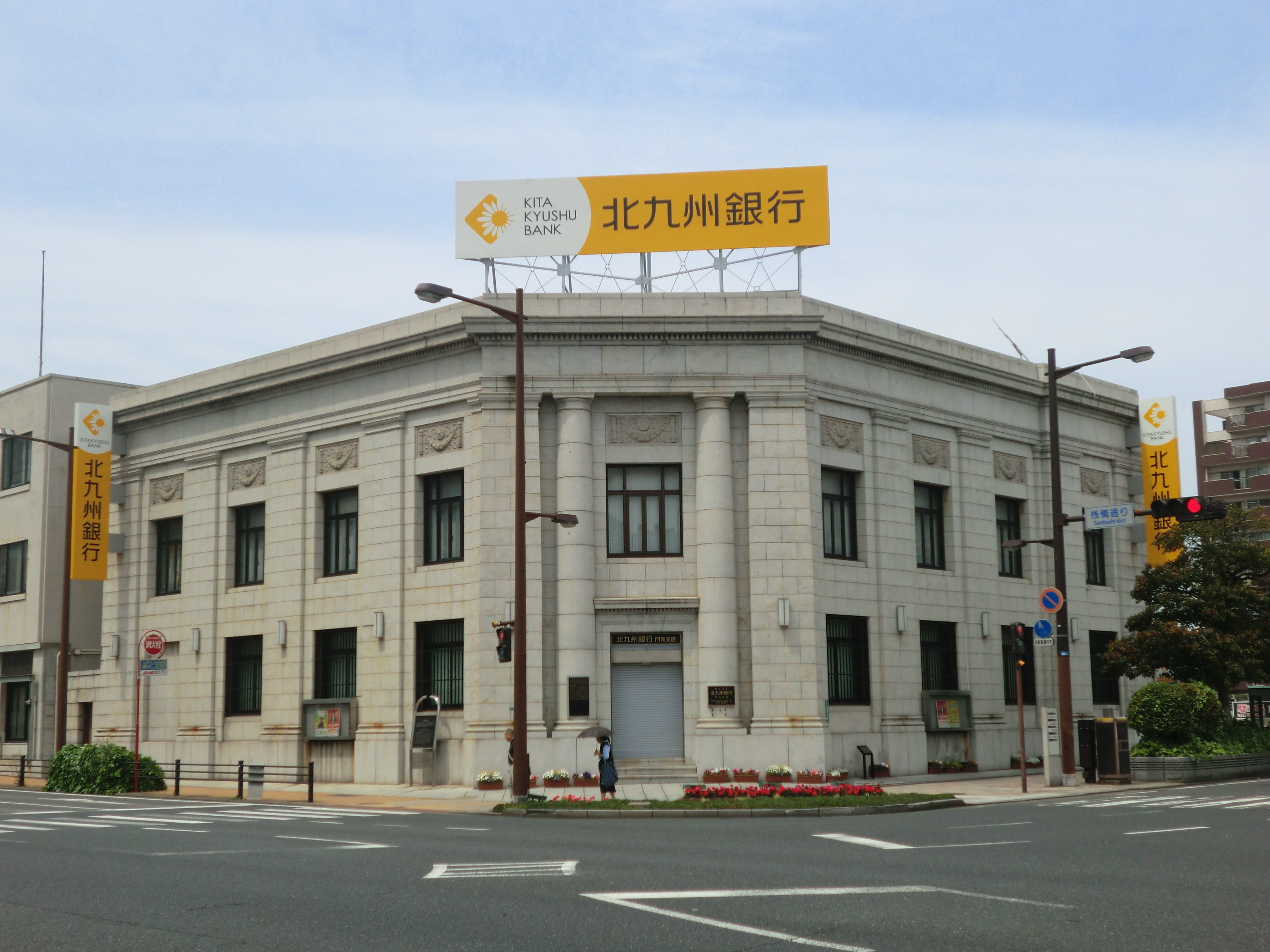 Kitakyushu Bank Moji branch (former Yokohama Specie Bank Moji branch) at Mojiko area, Kitakyushu, fukuoka, Japan.